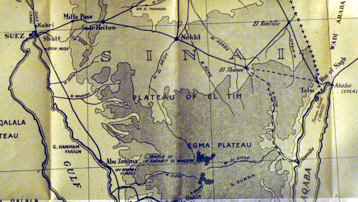 Map of Sinai with Nakhl at center. Approximately 70 miles east of Suez.